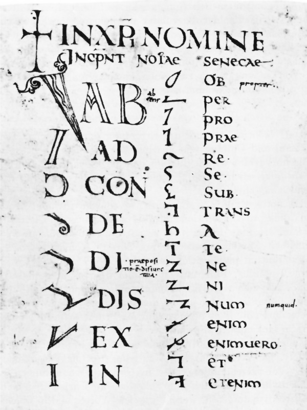 Explanations for some Tironian notes in a manuscript from 9th century with Notae Senecae. Text: In Christo Nomine Incipunt Notae Senecae Ab absens (?) Ob propter Ad Per Con Pro De Prae Di Re praepositio et disiunctia (?) Dis Se Ex Sub In Trans (labda) Te Ne Ni Num numquid Enim Enimvero Et Etenim